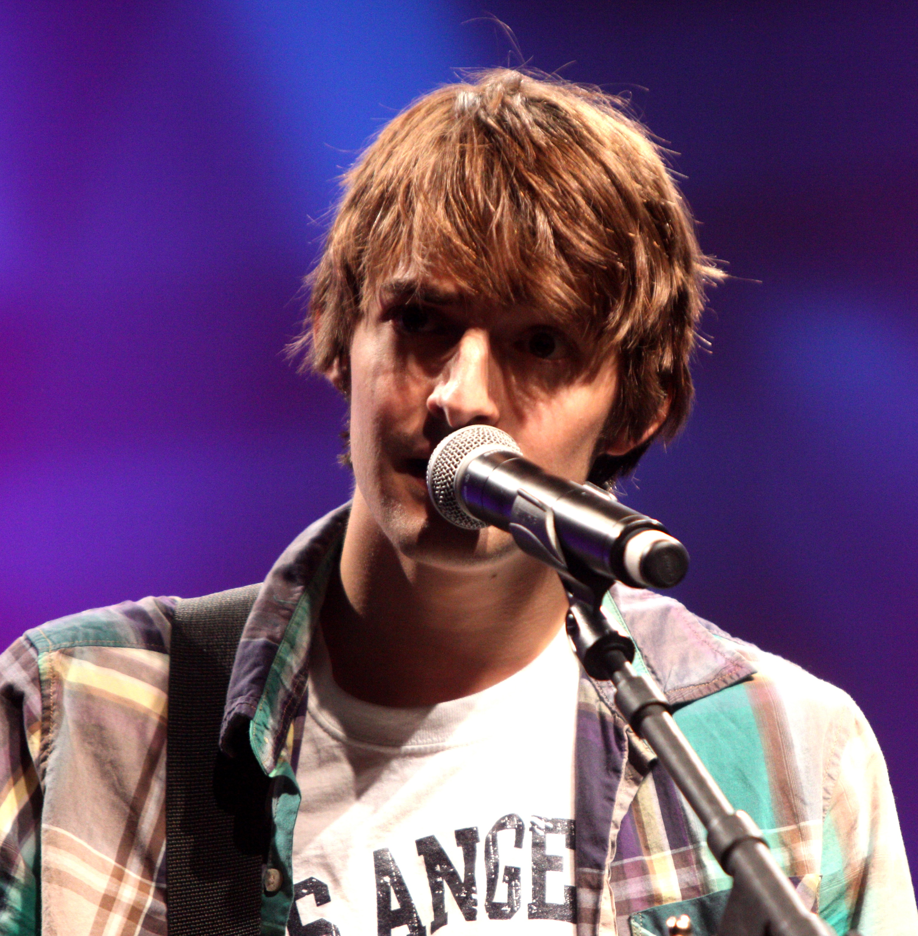 Dave Days at the 2012 VidCon in Anaheim, California.